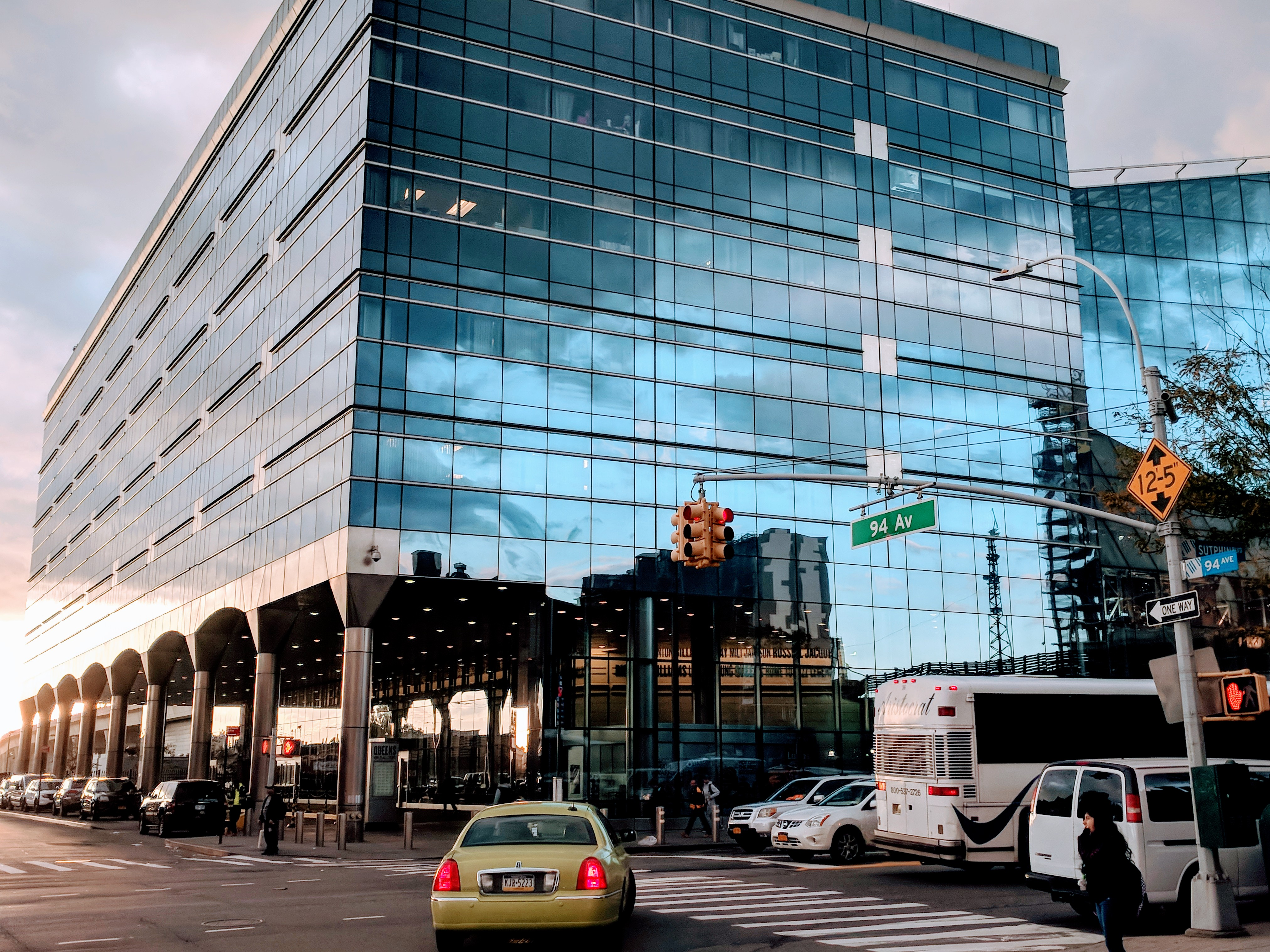 94th ave at Sutphin, ground floor atrium has Queens Jazz Legends motif, upper level is red station, JFK airtrain, Sutphin blvd to Federal circle.